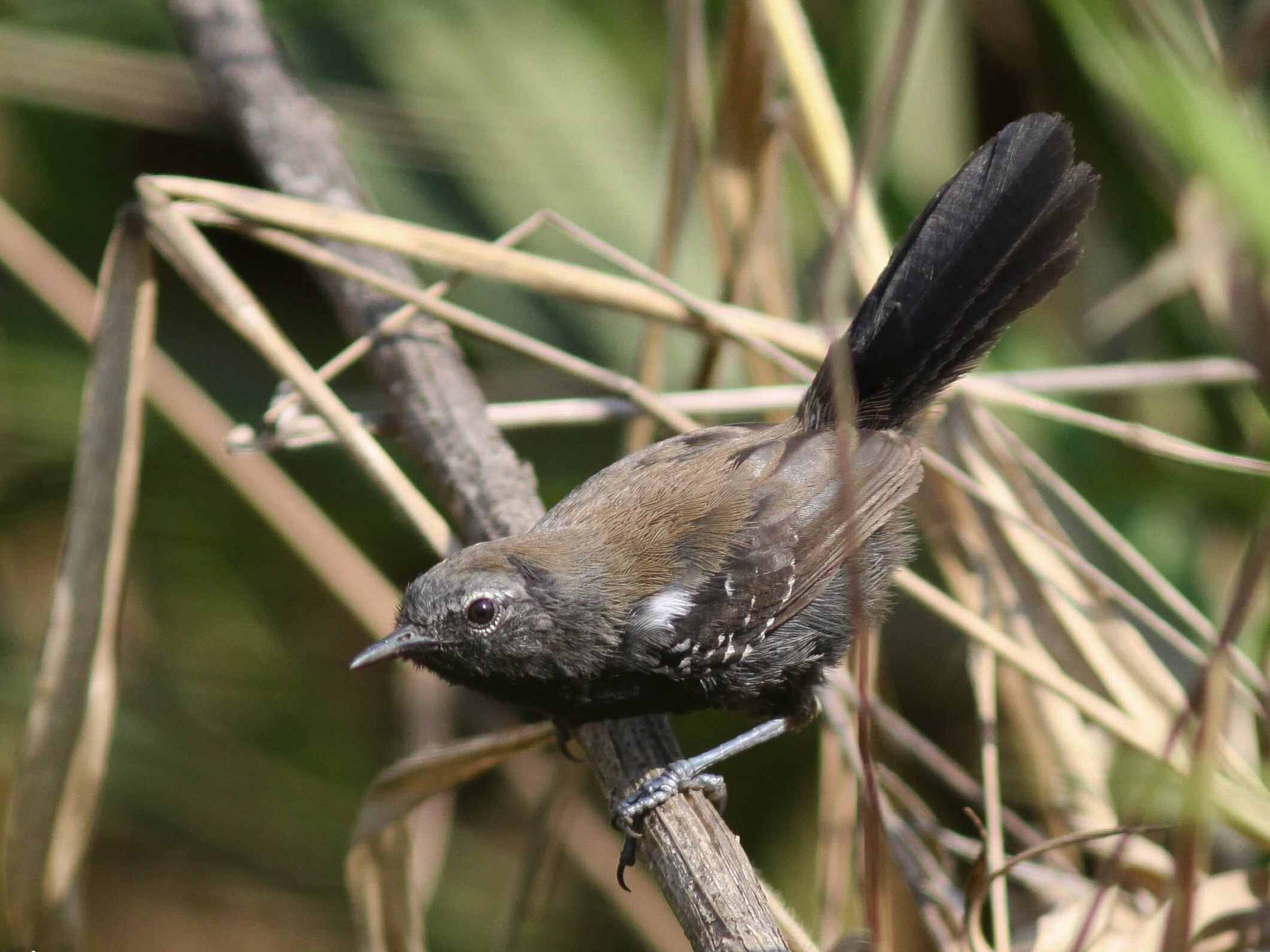 Male São Paulo Marsh Antwren (Formicivora paludicola; "bicudinho-do-brejo-paulista") in Biritiba-Mirim, São Paulo, Brazil. A recently discovered species. Closely related to the Paraná/Marsh Antwren (Formicivora [Stymphalornis] acutirostris